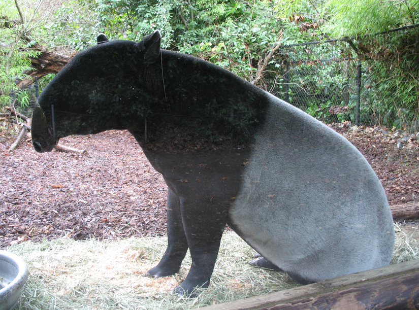 Photo by Sasha Kopf of female Malayan tapir at the Woodland Park Zoo, Seattle, Washington, USA